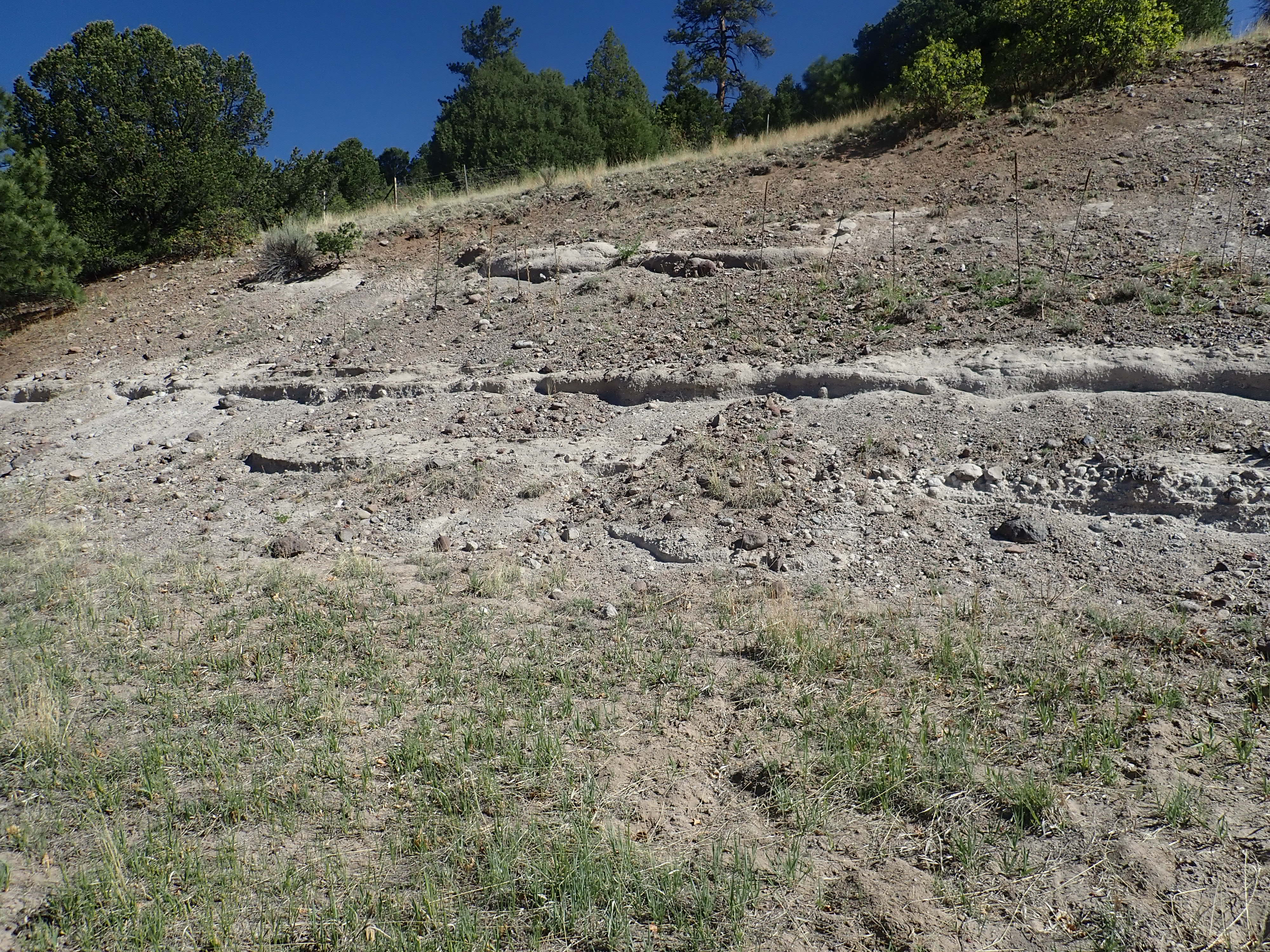 This road cut exposes the Cordito Member of the Los Pinos Formation. This is composed of mostly high-silica volcanic debris eroded off the Latir volcanic field, and possibly a volcanic center buried under the basalt of the Taos Plateau, to the east. The age is late Oligocene to late Miocene. Tusas Mountains, New Mexico, USA.